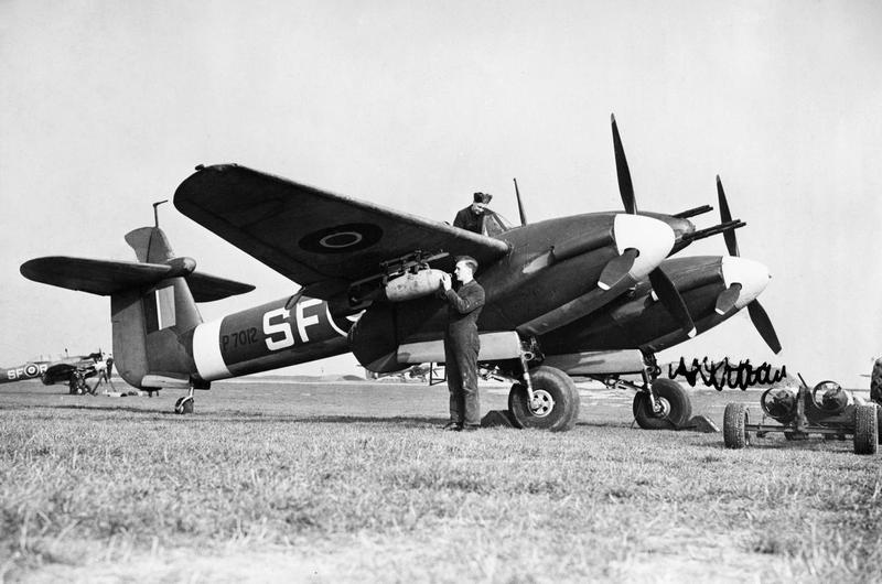 A Westland Whirlwind P7012 of No 137 Squadron being rearmed with 250lb bombs, March 1943.